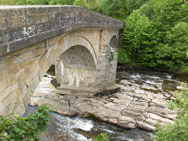 Eals Bridge. and the rocky bed of the South Tyne.